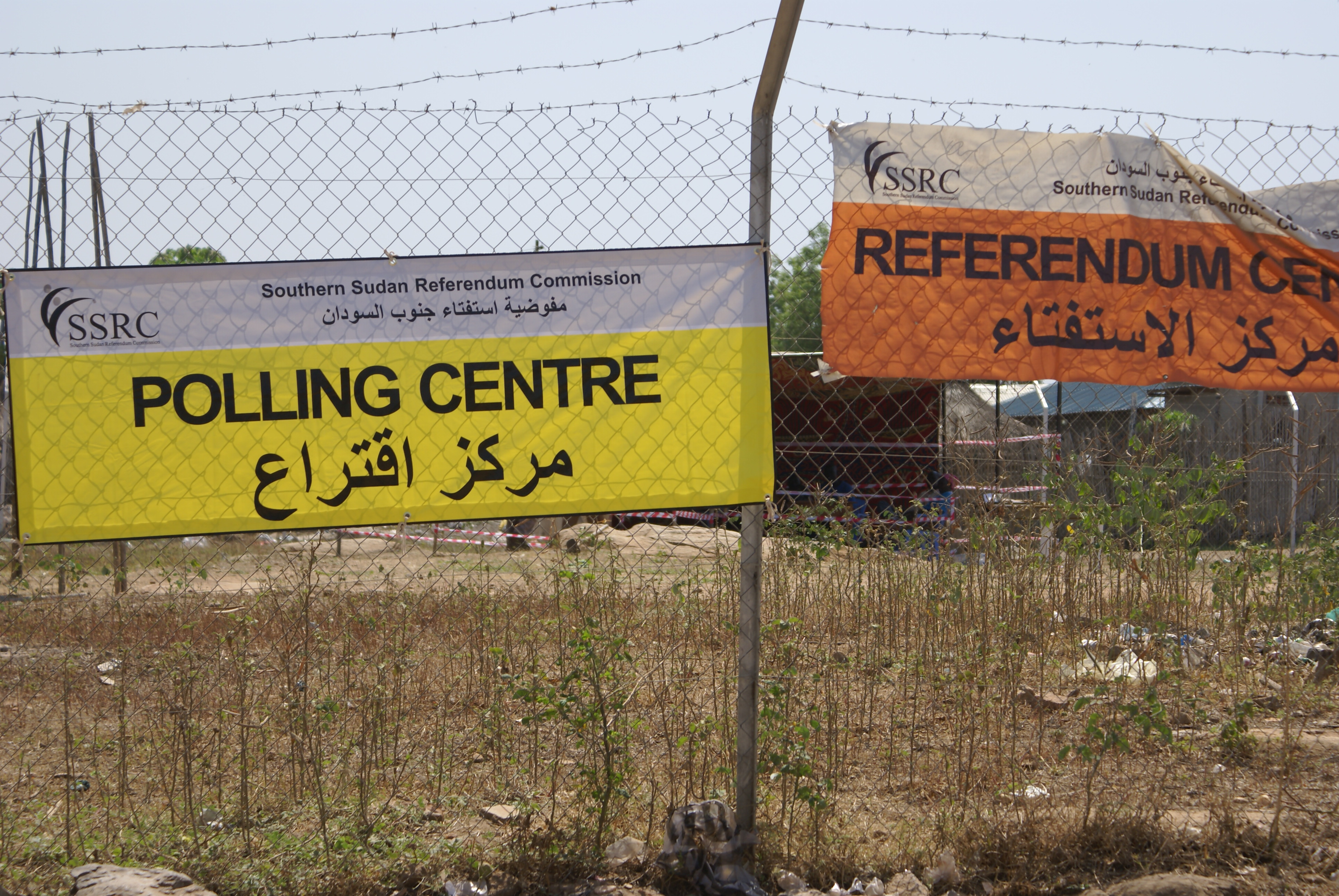 A total of 3.9 million southerners have registered for the self-determination vote that may lead to the partition of Africa's largest country.